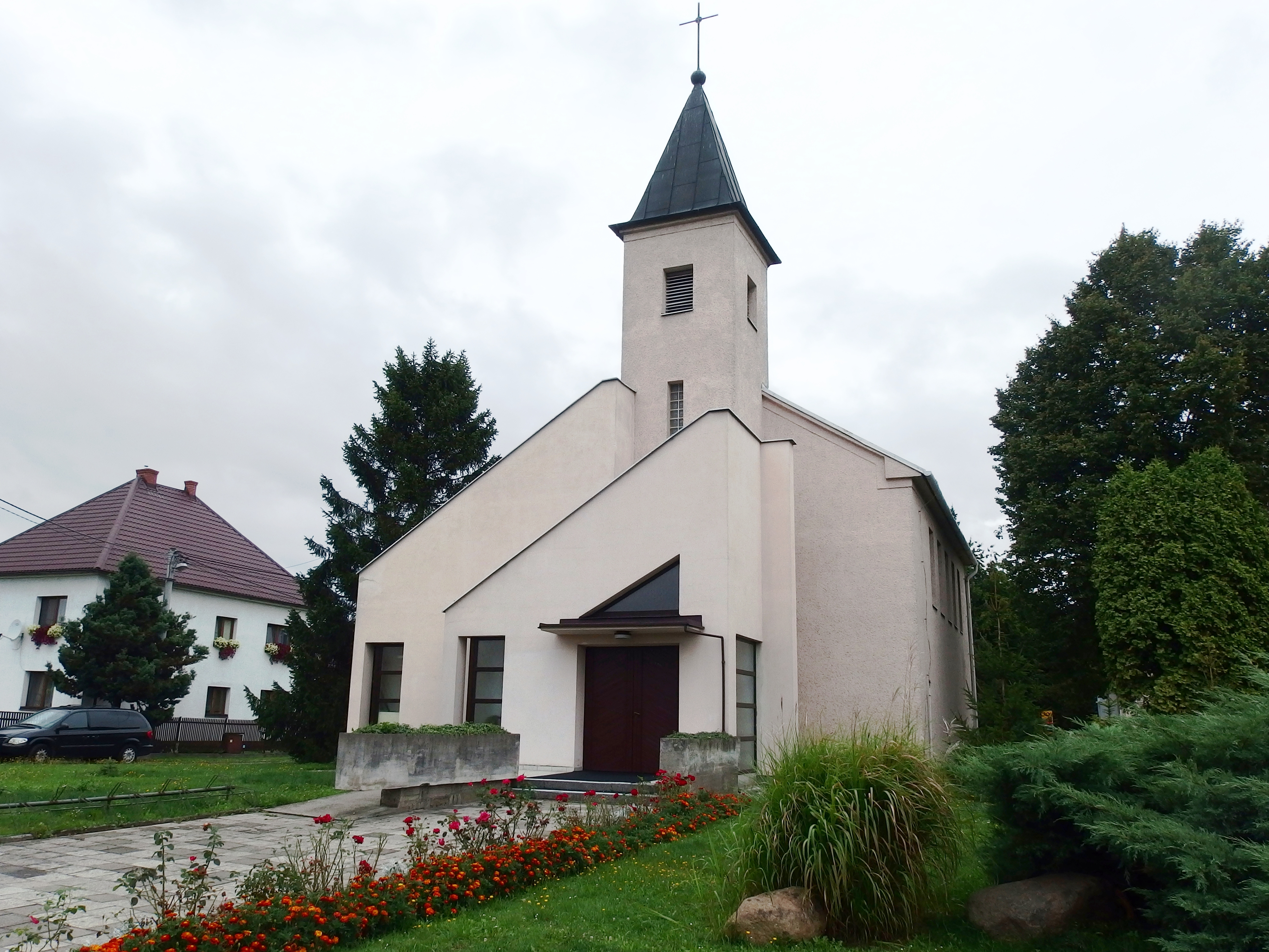 Hlučín, Opava District, Czech Republic, part Darkovičky.